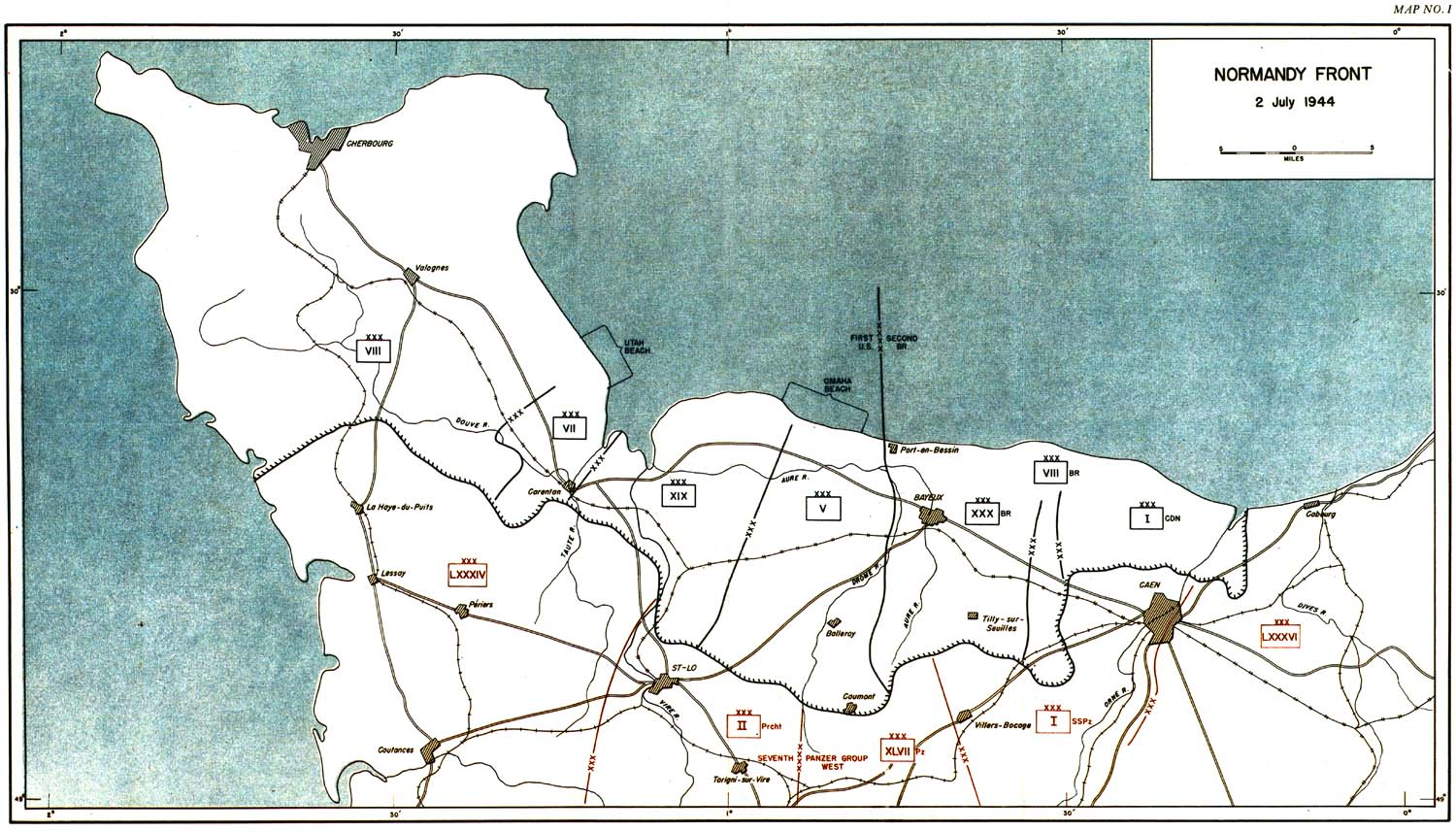 =Map of the Normandy Front, 2 July 1944.